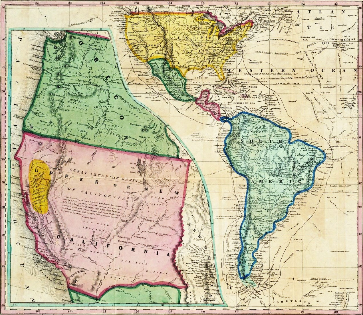 Derived from File:CalGoldRushMap.jpg